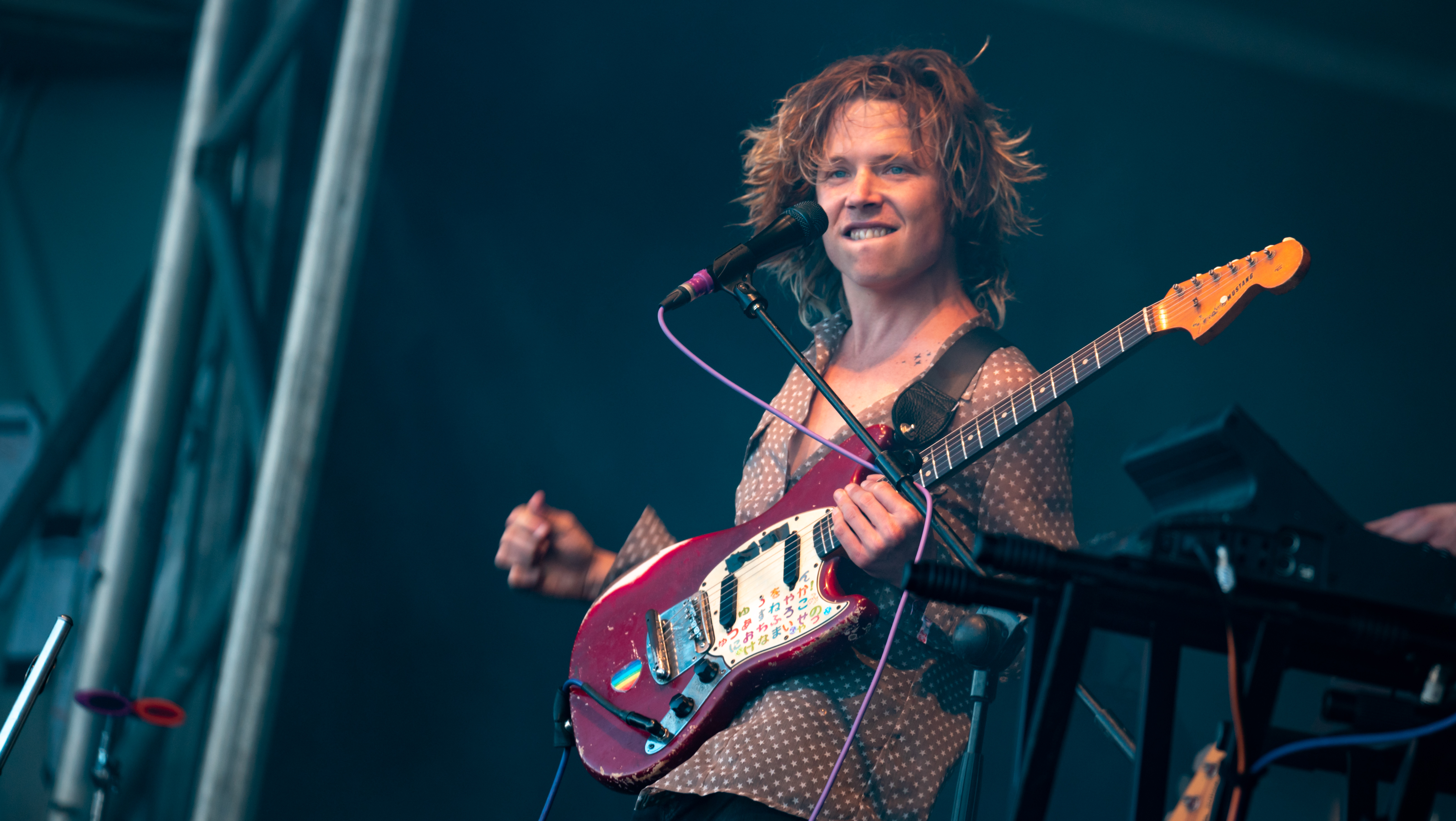 Australian rock band Pond performing at Primavera Sound festival 2019